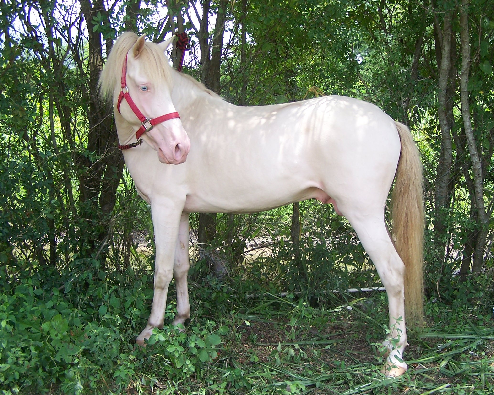 This is a perlino colored horse reffered to as a white horse by the owner who said the dam was a buckskin horse and the sire was a black horse.